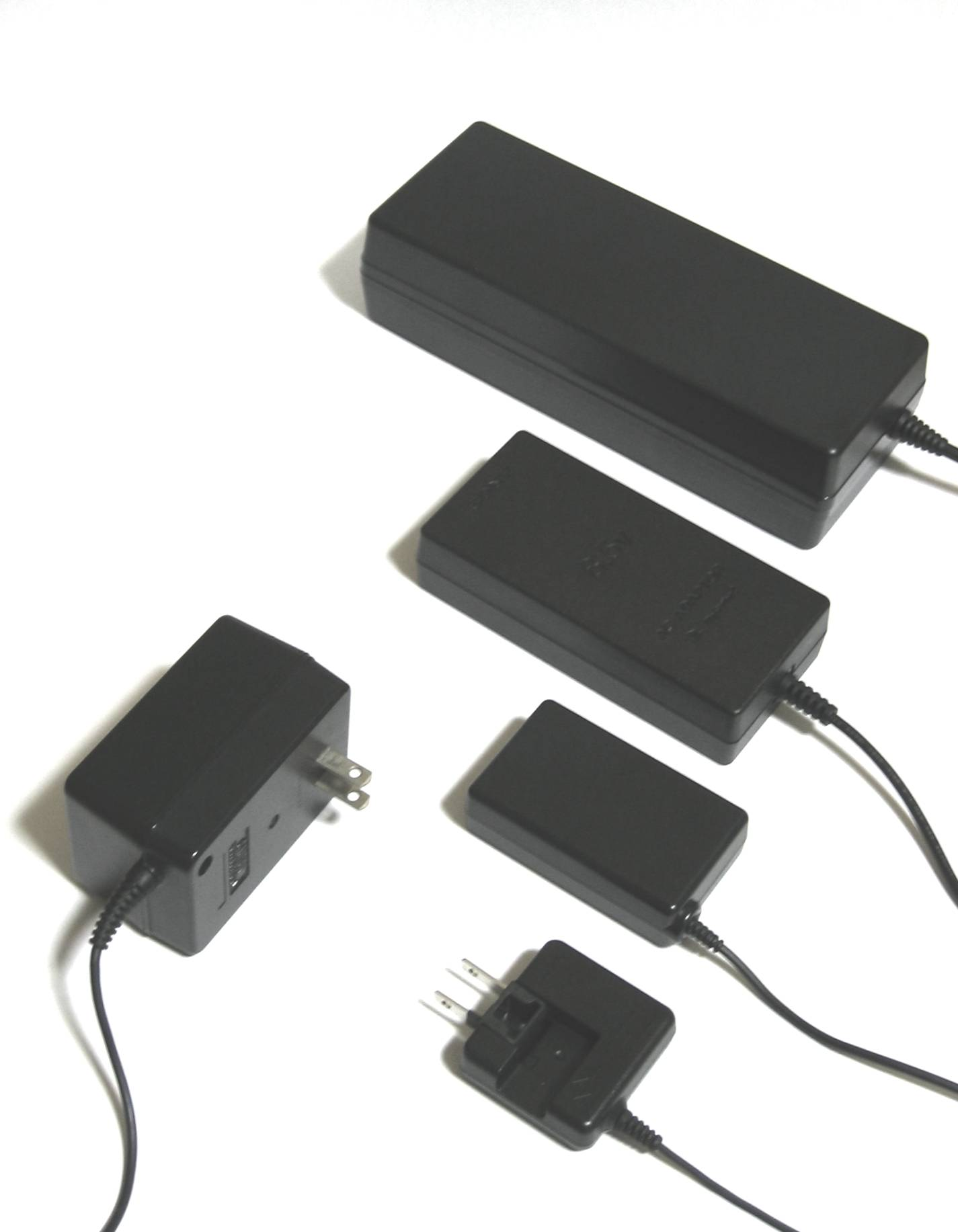 There are five AC adaptors. These are used for a lot of electric devices power supply. For TV (SONY WEGA 19" wide LCD), model: AC-FD008, output: 100W DC. For gaming device (SONY PlayStation 2 slim), model: SCPH-70100, output: 48W DC. For portable gaming device (SONY PlayStation Portable), model: PSP-100, output: 10W DC. For mobile phone (NTT DoCoMo FOMA), output: 3.8W DC. For gaming device (Nintendo Super Famicom [SNES]), model: HVC-002, output: 8.5W DC.